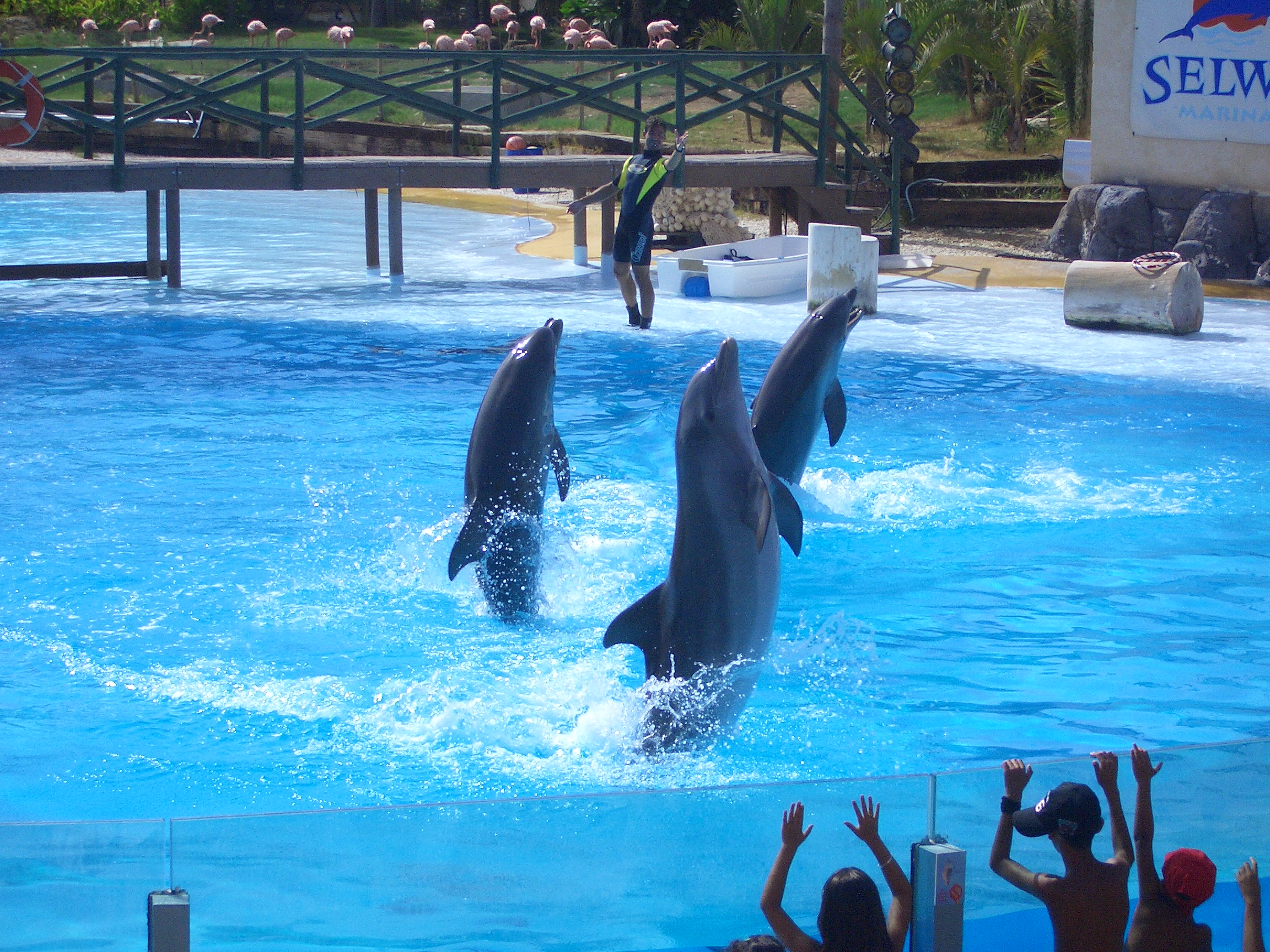 Dolphins in Selwo Marina, Benalmádena, Málaga, Spain